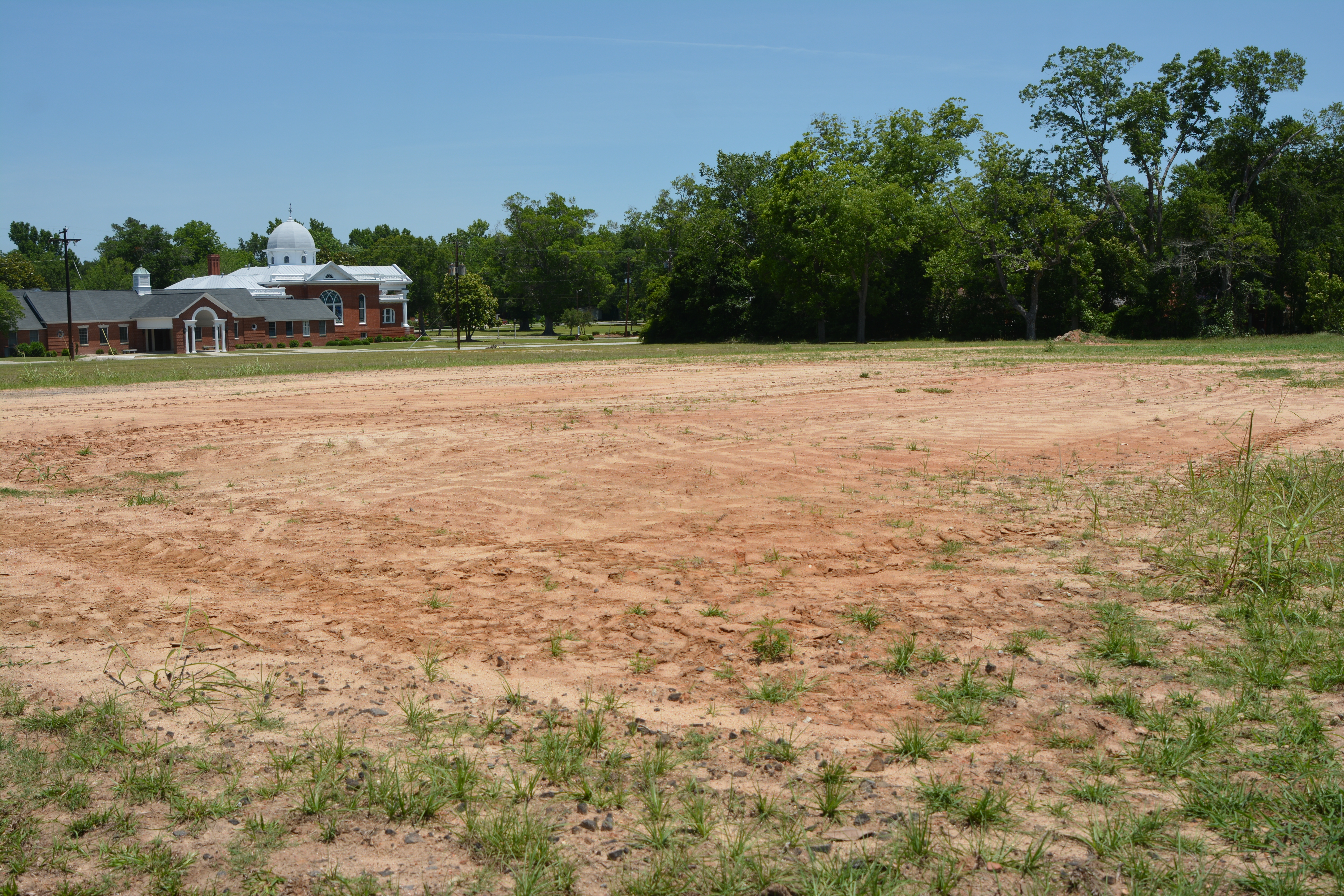 This block is the site of the old Millen High School. The dirt area seems to be the location of the auditorium.